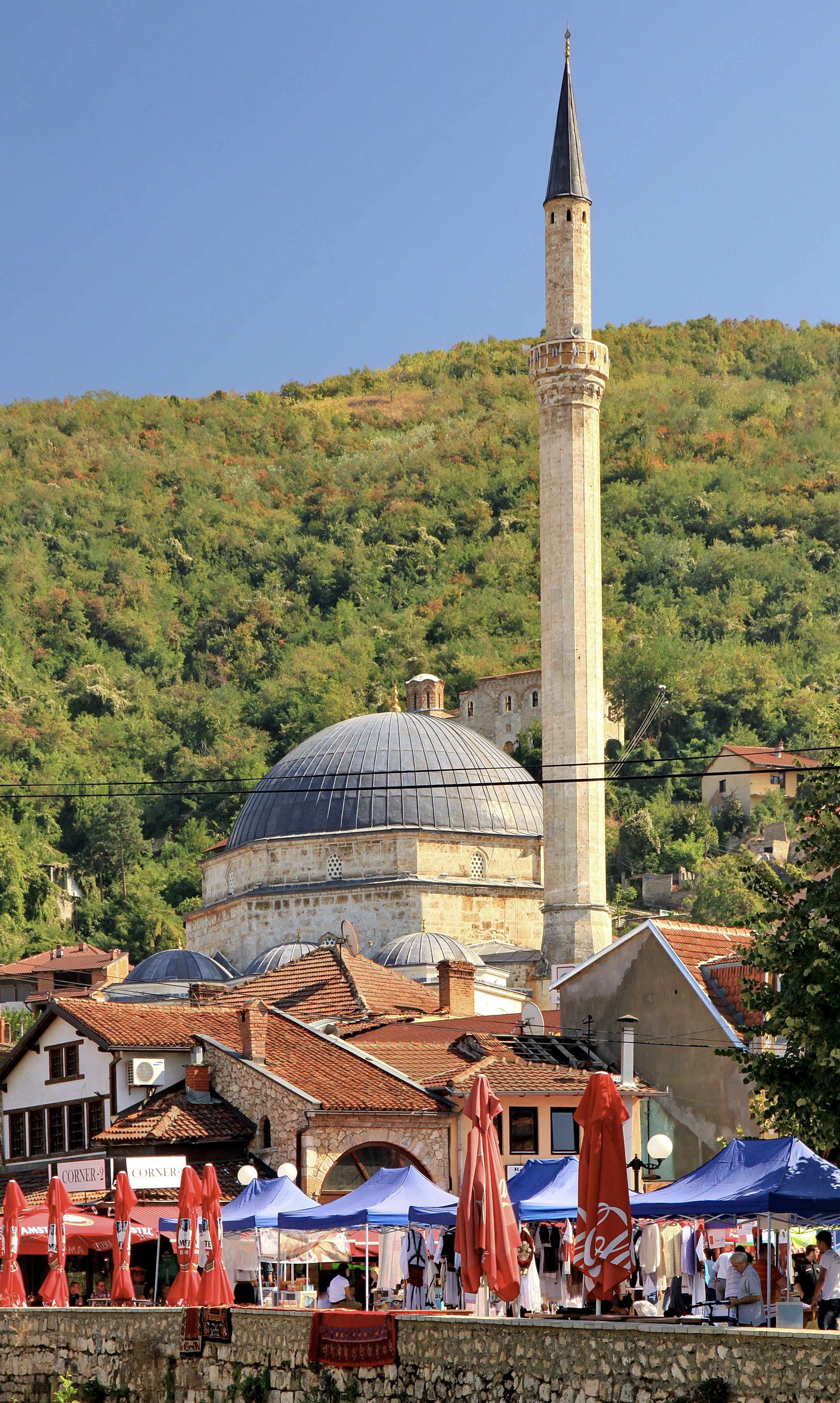 Sinan Pasha mosque. Prizren, KosovoTürkçe: Sinan Paşa Camii. Prizren, Kosova